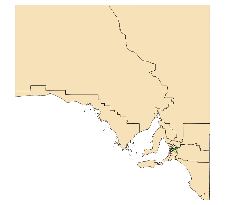 Electoral district 2018 boundaries shown in green